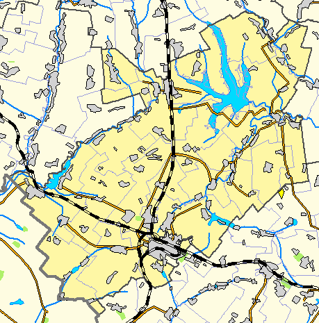 Map of Lozivskyi raion, Kharkiv oblast, Ukraine